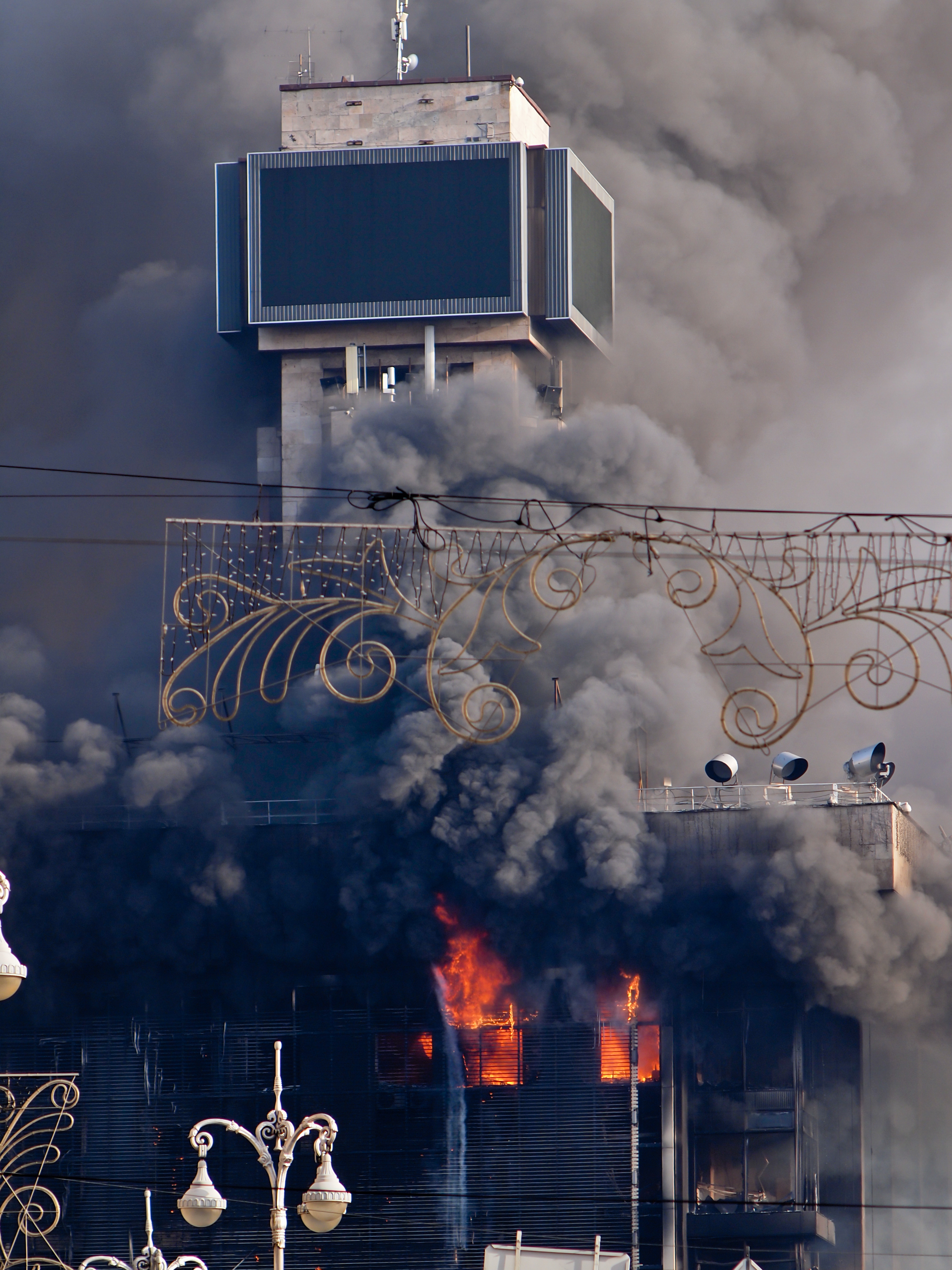 Euromadan in Kiev, 19 February 2014. Labor Unions' House on fire. It was reportedly set afire by police, as it was the headquarters of protesters.